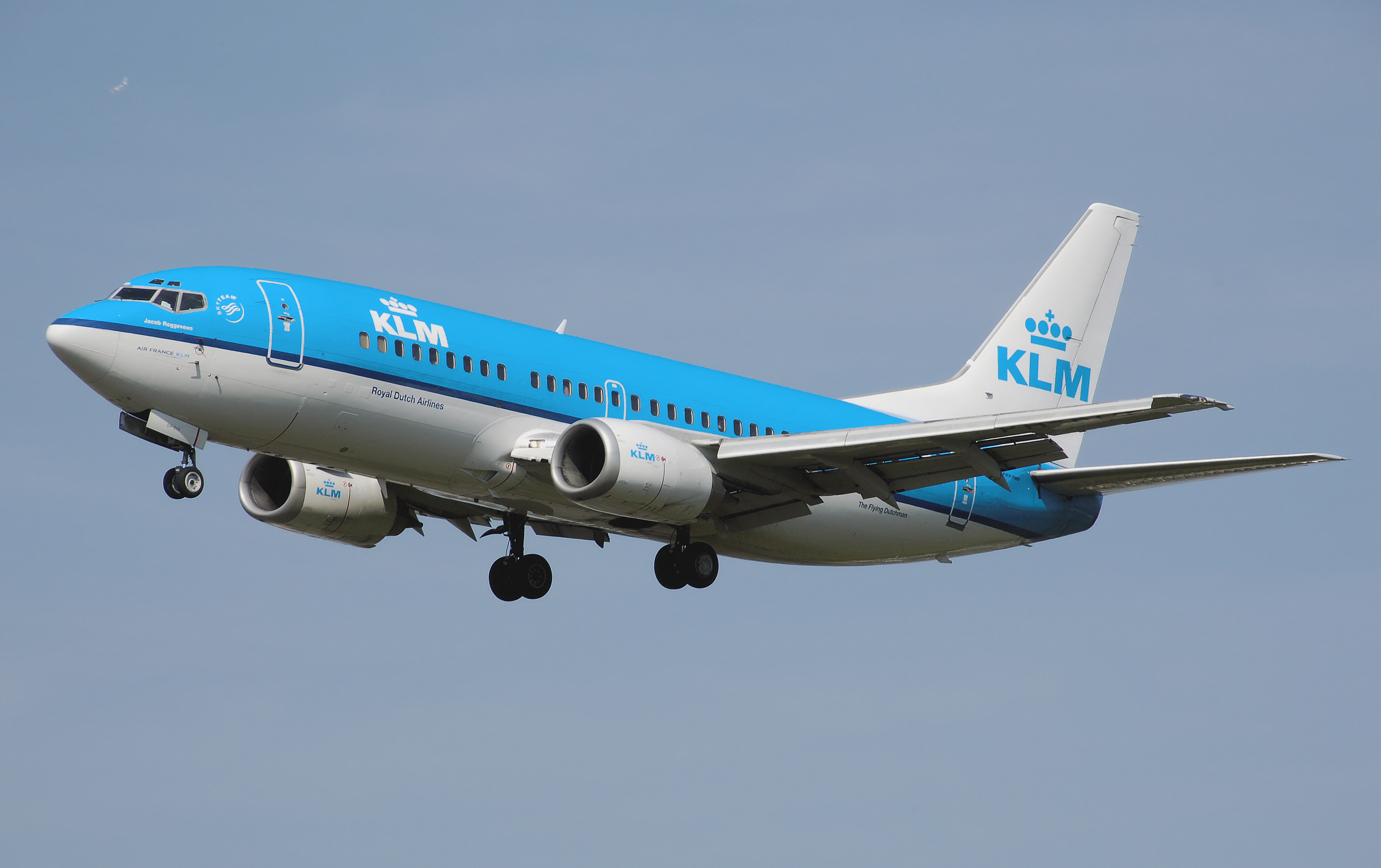 KLM Boeing 737-306 aircraft (PH-BDP) landing at London Heathrow Airport.